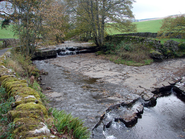 River Dee The low water level exposes the limestone bed of the river.